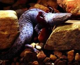 Necturus maculosus maculosus - Common mudpuppy